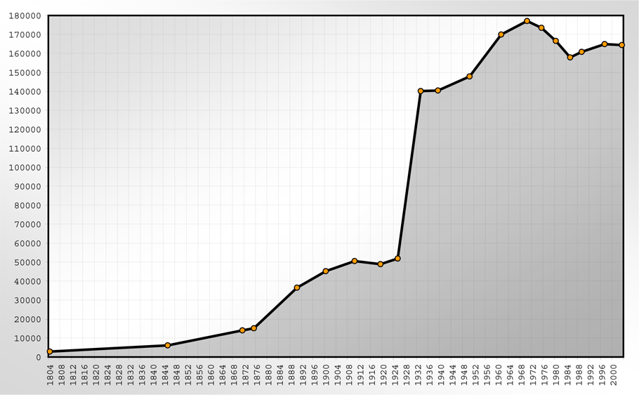 This image shows the population statistics of Solingen (Germany).